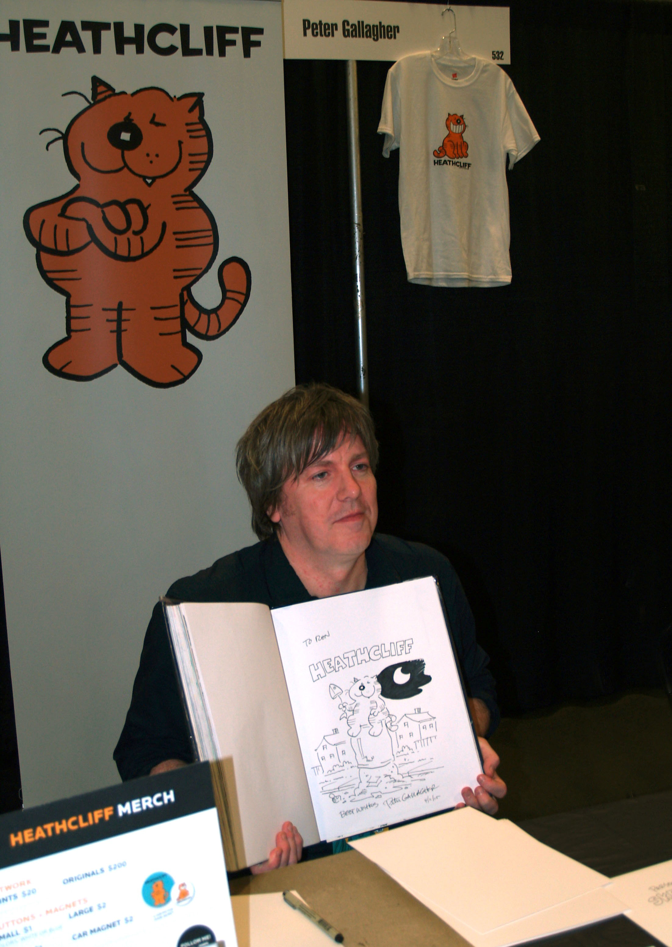 Heathcliff writer/artist Peter Gallagher at the Meadowlands Exposition Center in Secaucus, New Jersey on April 11, 2015, Day 1 of the 2015 East Coast Comicon. This photo was created by Luigi Novi. It is not in the public domain, and use of this file outside of the licensing terms is a copyright violation.